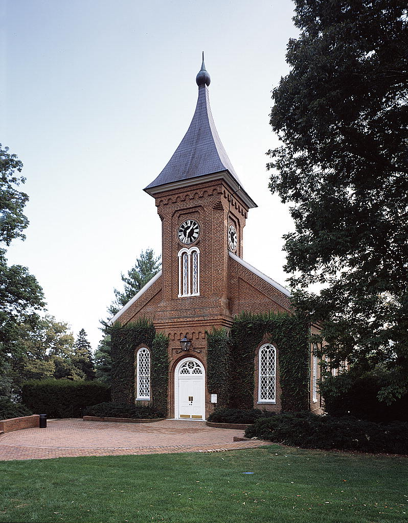 Lee Chapel and Museum located in Lexington, Virginia at Washington and Lee University. The chapel was built in 1867. General Robert E. Lee who served as president from 1865 to 1870 had his office in the chapel and is buried there.